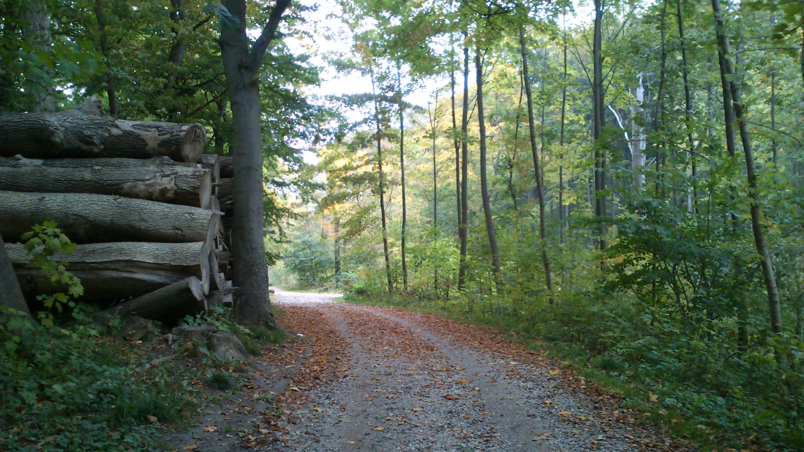 Marselisborg Forests